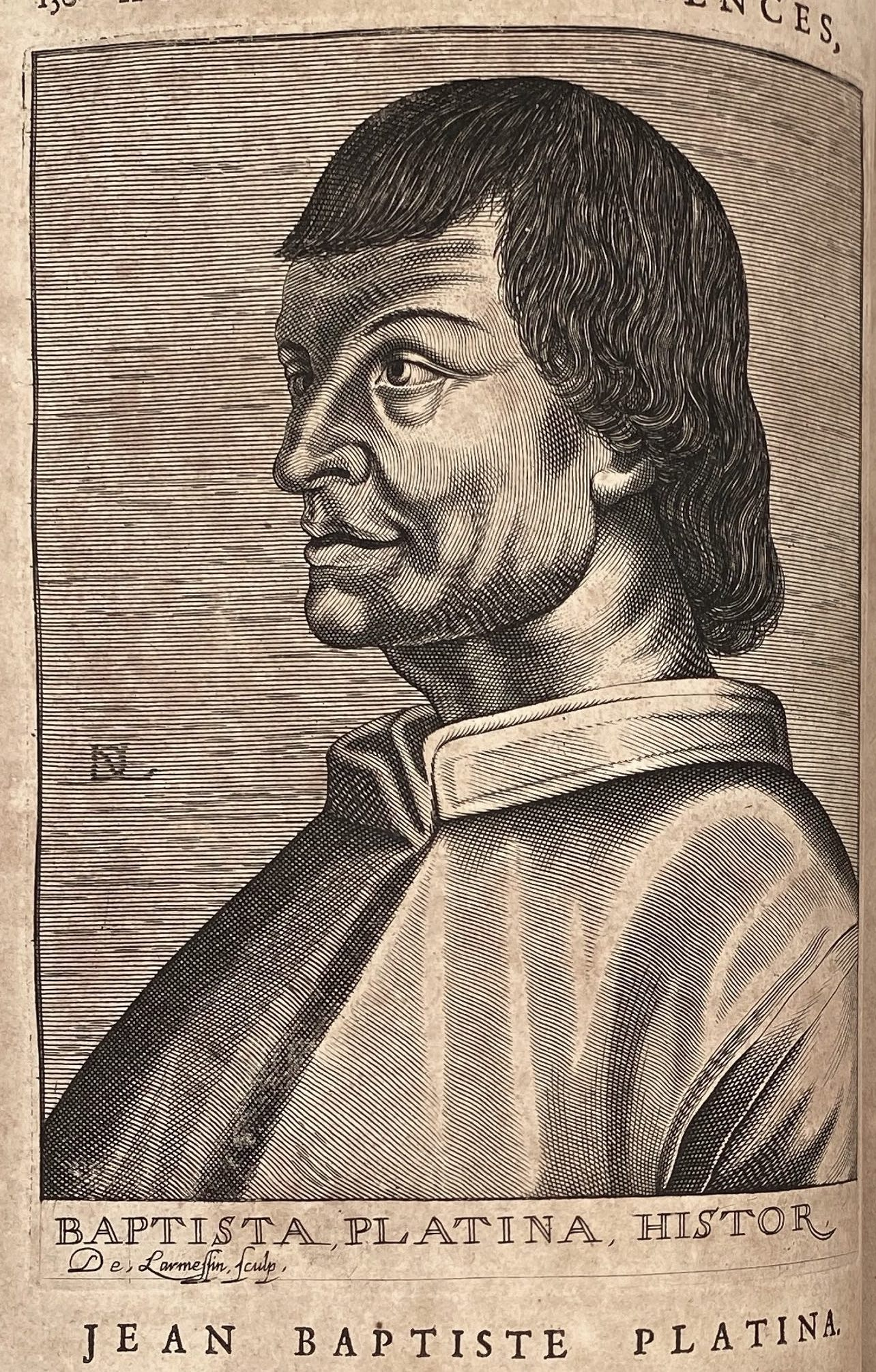 Half-length portrait of Bartolomeo Sacchi (Platina), Italian historian, facing to the left. Engraved by Nicolas de Larmessin. Isaac Bullart. Académie Des Sciences Et Des Arts. - Amsterdam: Elzevier, 1682